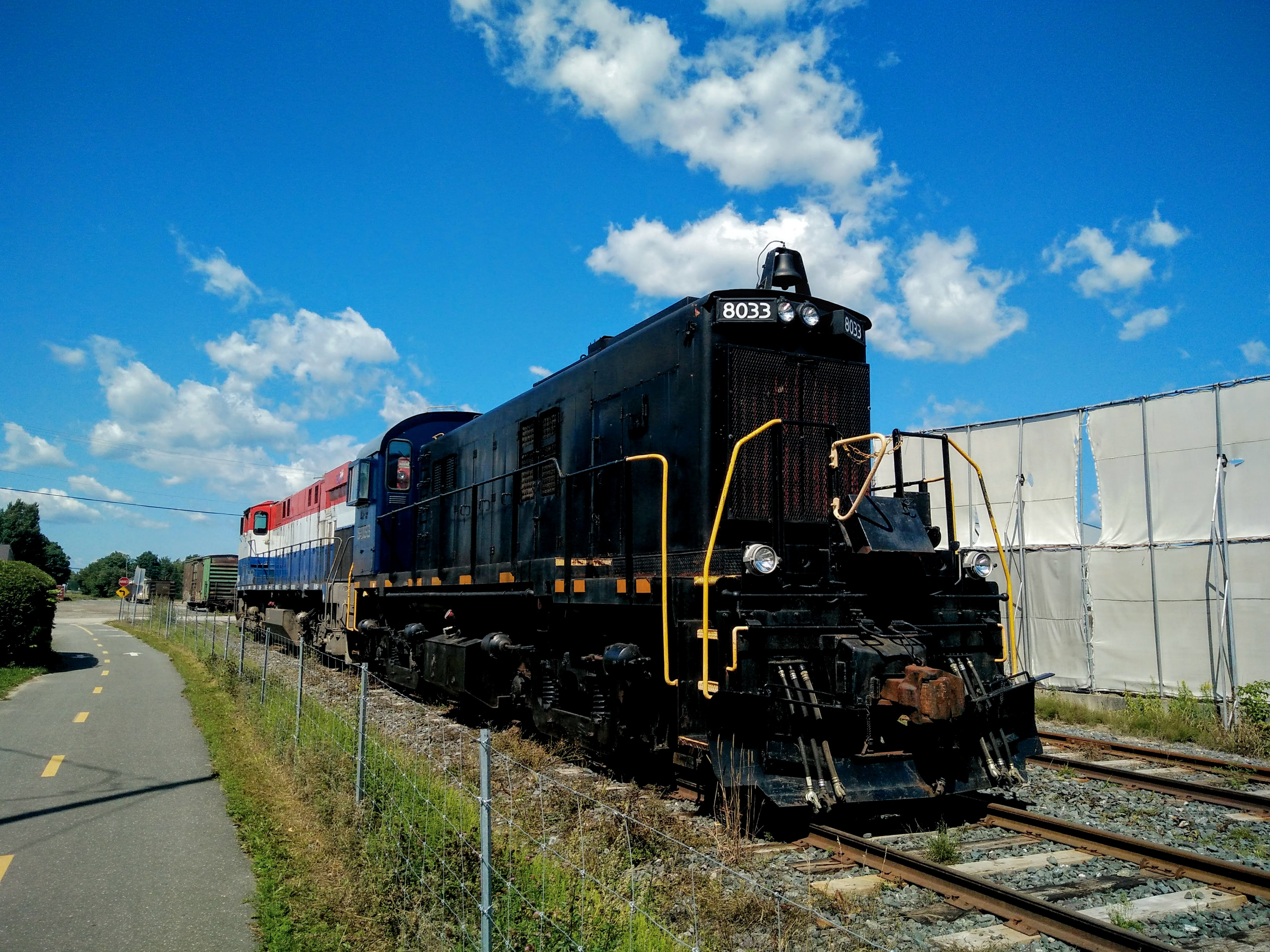 Engine 8033 from Sartigan Railway, operator on Québec Central Railway, at the intermodal centre in Scott, Quebec.